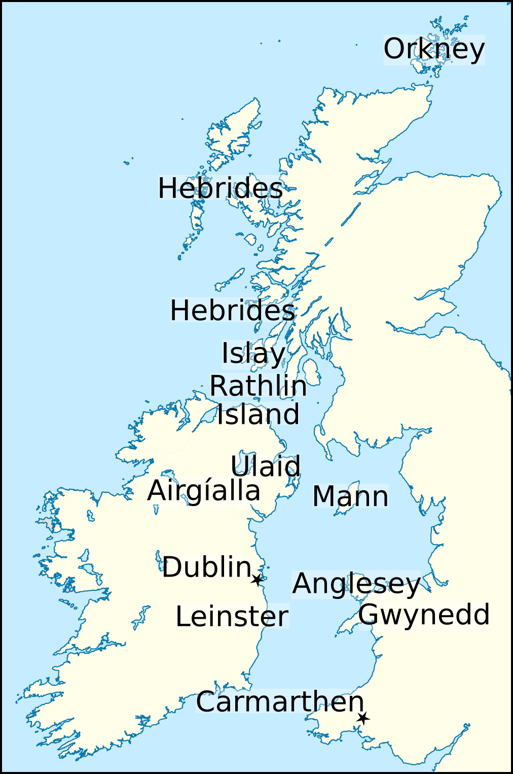 Map illustrating some places named in the English Wikipedia article Ímar mac Arailt, King of Dublin (died 1054).